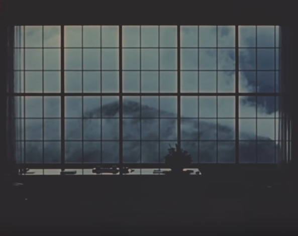 Adolf Hitler’s desk and panorama window in the Berghof. Screenshot from a video by Eva Braun.